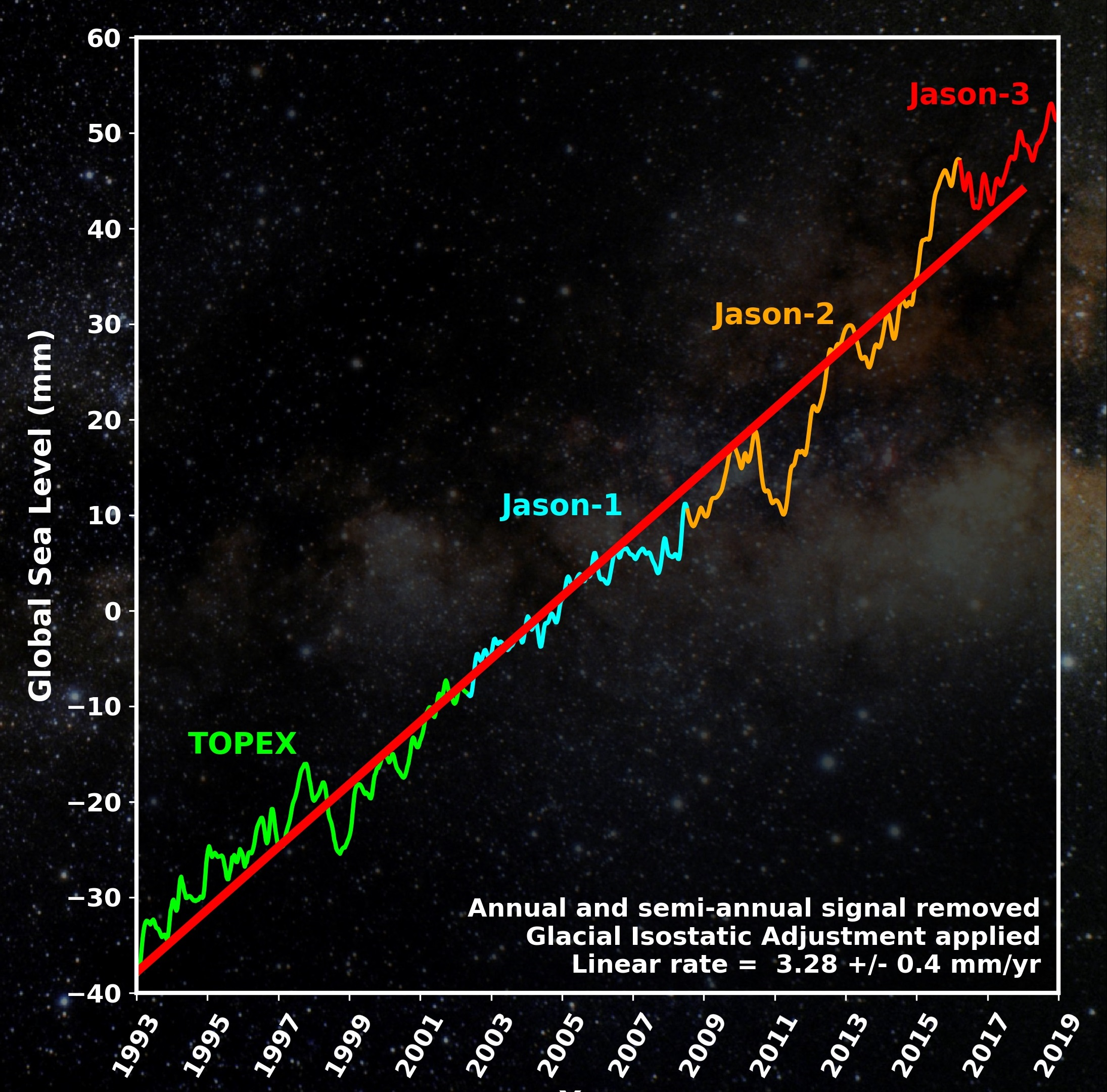 Global sea level has shown a steady rise since the early 1990s as measured by Jason-2/OSTM, its predecessor missions, and Jason-3.